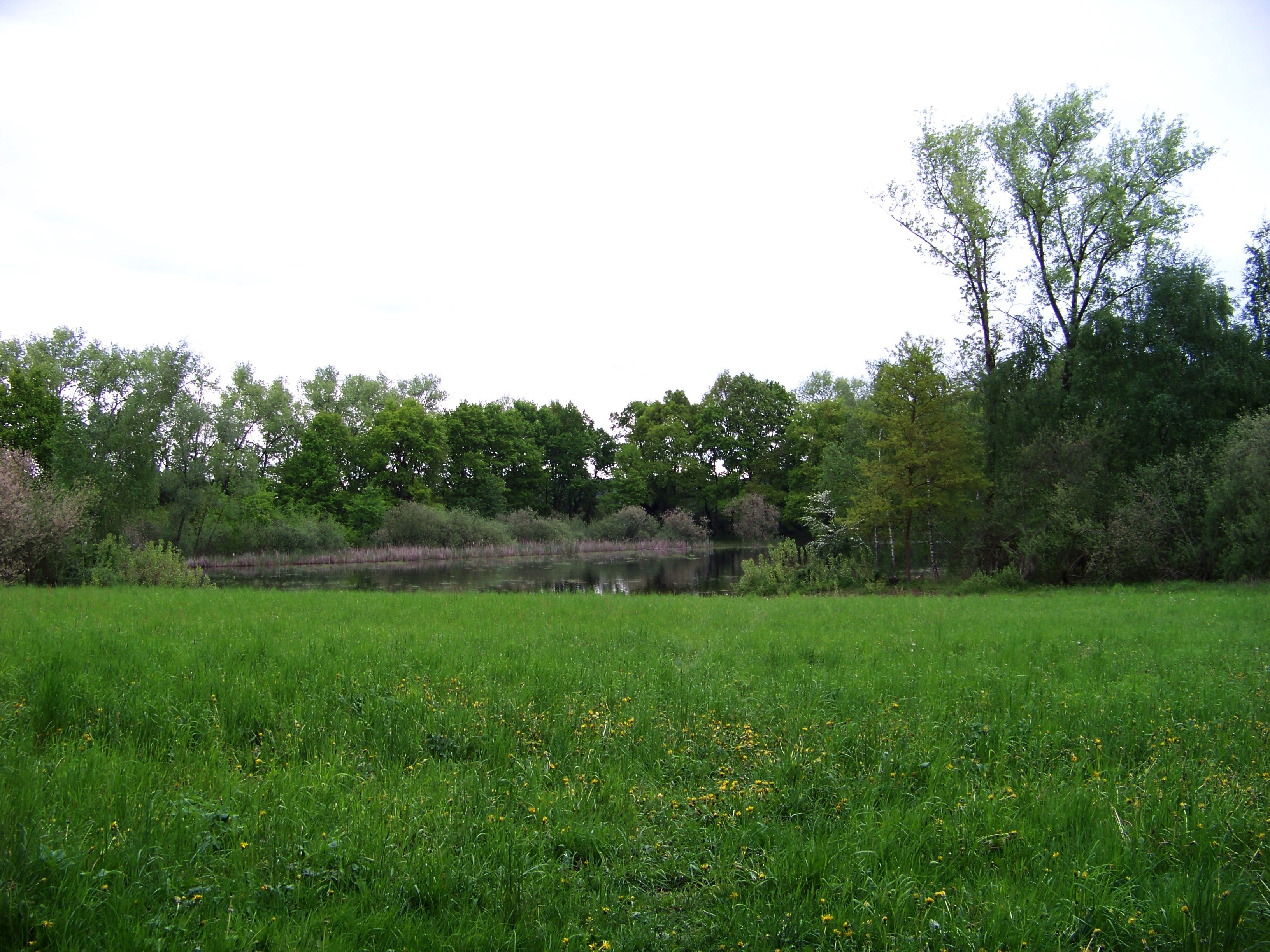 Prague-Újezd, Czech Republic. Milíčov Forest, Homolka pond.